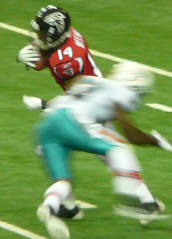 If used somewhere other than Wikipedia, Nelson, by name.